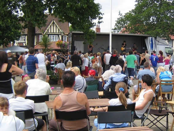 Hessle Feast main stage 2006, Battle of the Bands, Hessle Square, Hessle, East Riding of Yorkshire, England.